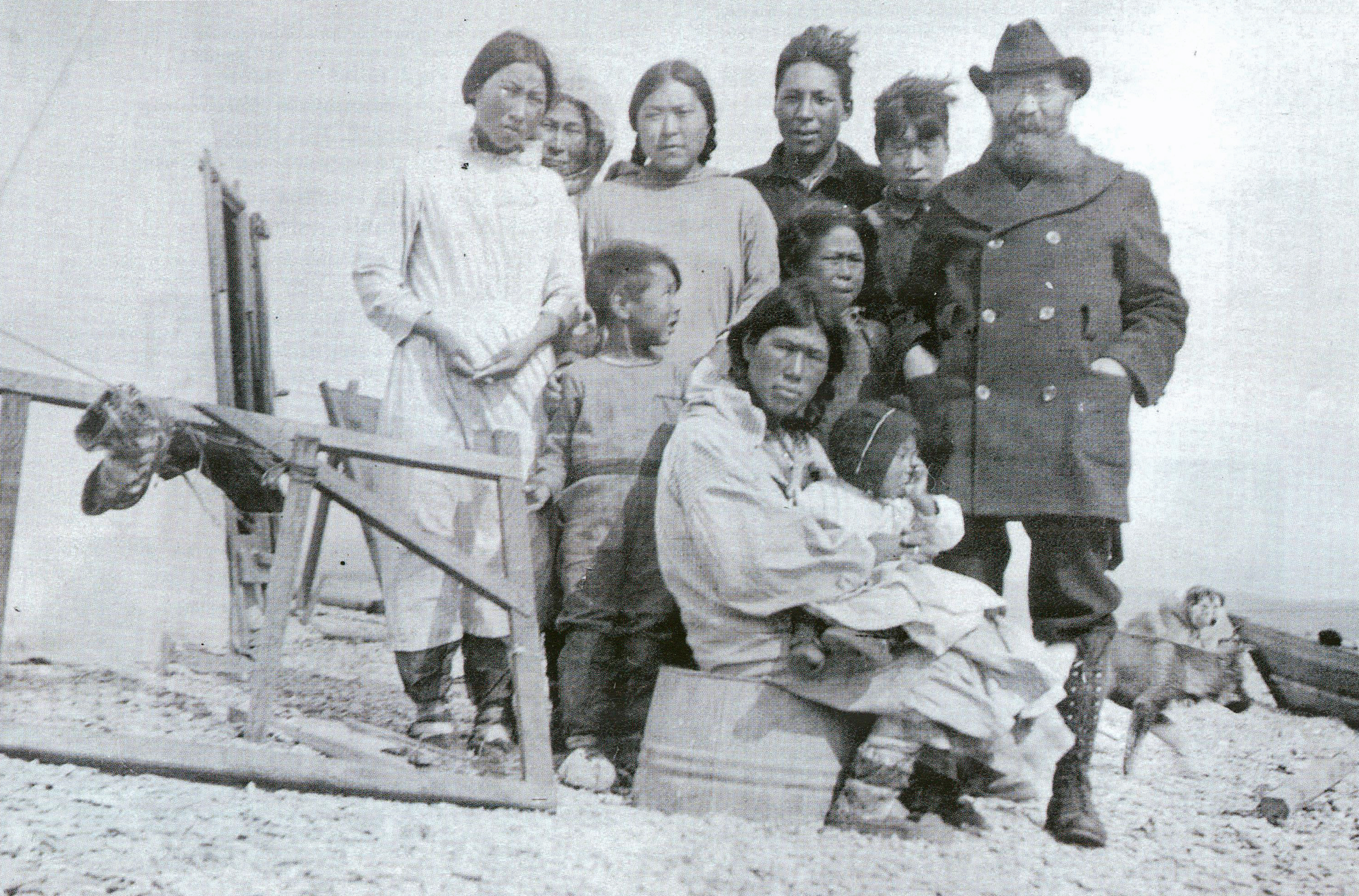 Swedish missionary Nils Fredrik Höijer with eskimos in Alaska. After the Russian revolution, he tried to reach Russia by boat from Alaska.